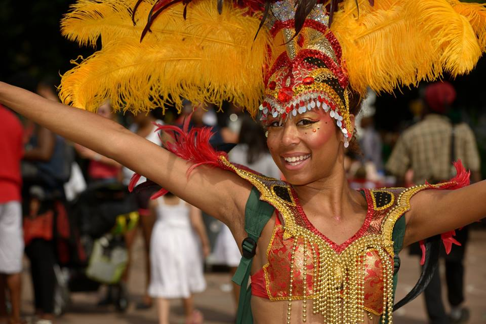 Masquerader, Sabrina Naz, at Cariwest Caribbean Arts Festival 2013